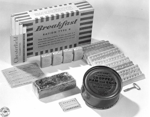 Breakfast unit of a K-ration. The K-ration was an individual daily combat food ration which was introduced by the United States Army during World War II.